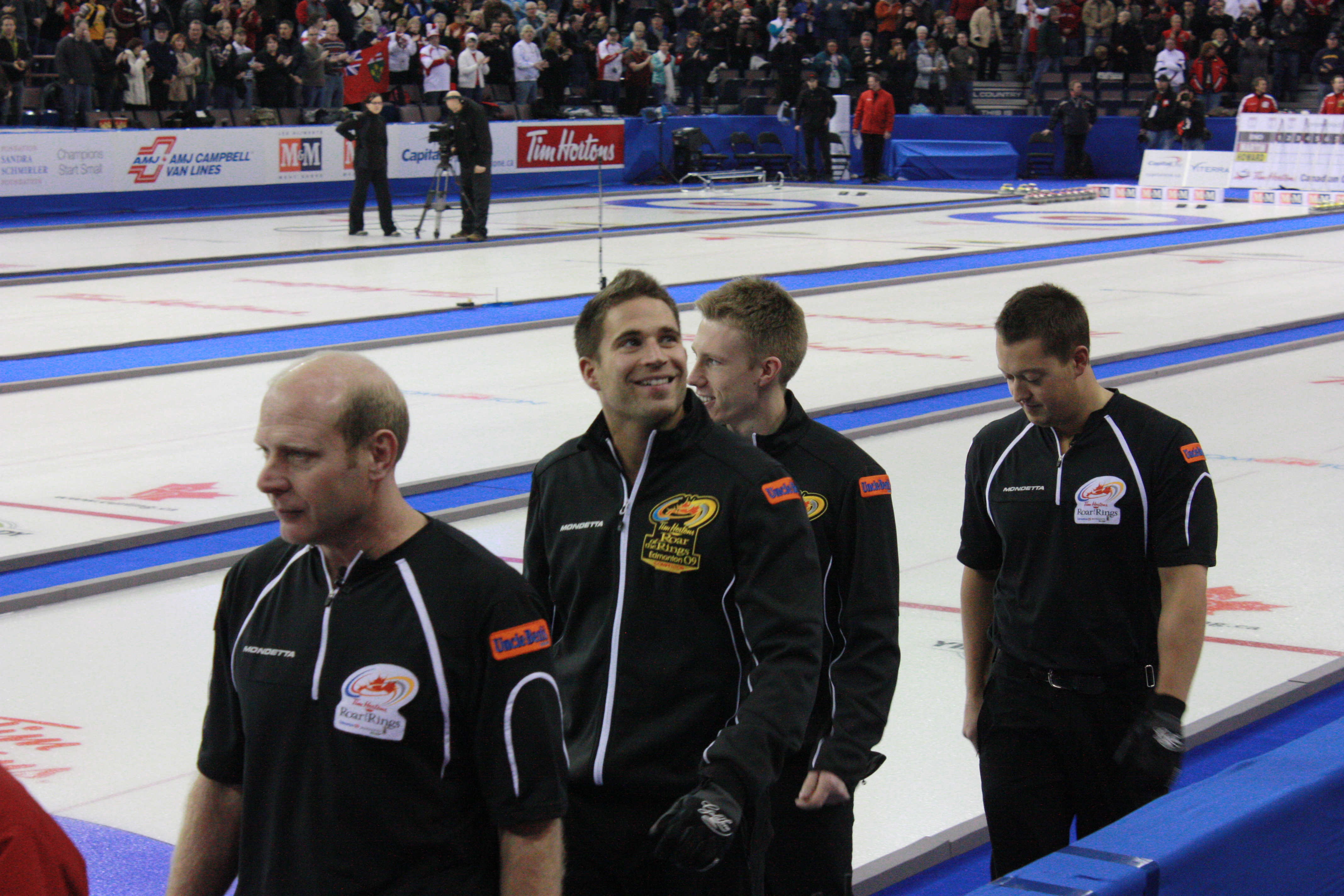 Team Martin walking in for the 2009 Roar of the Rings final